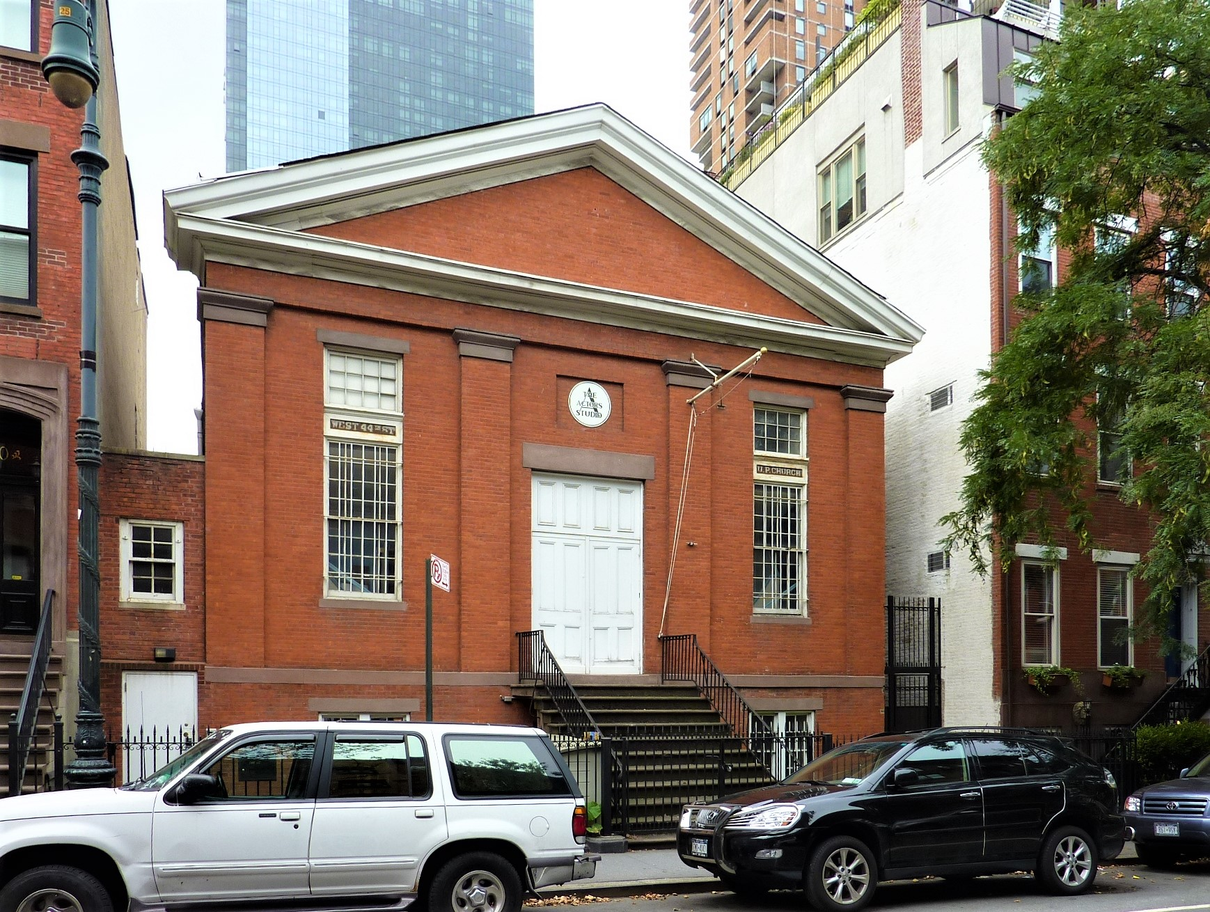 Former 7th Associate Presbyterian Church (Manhattan)